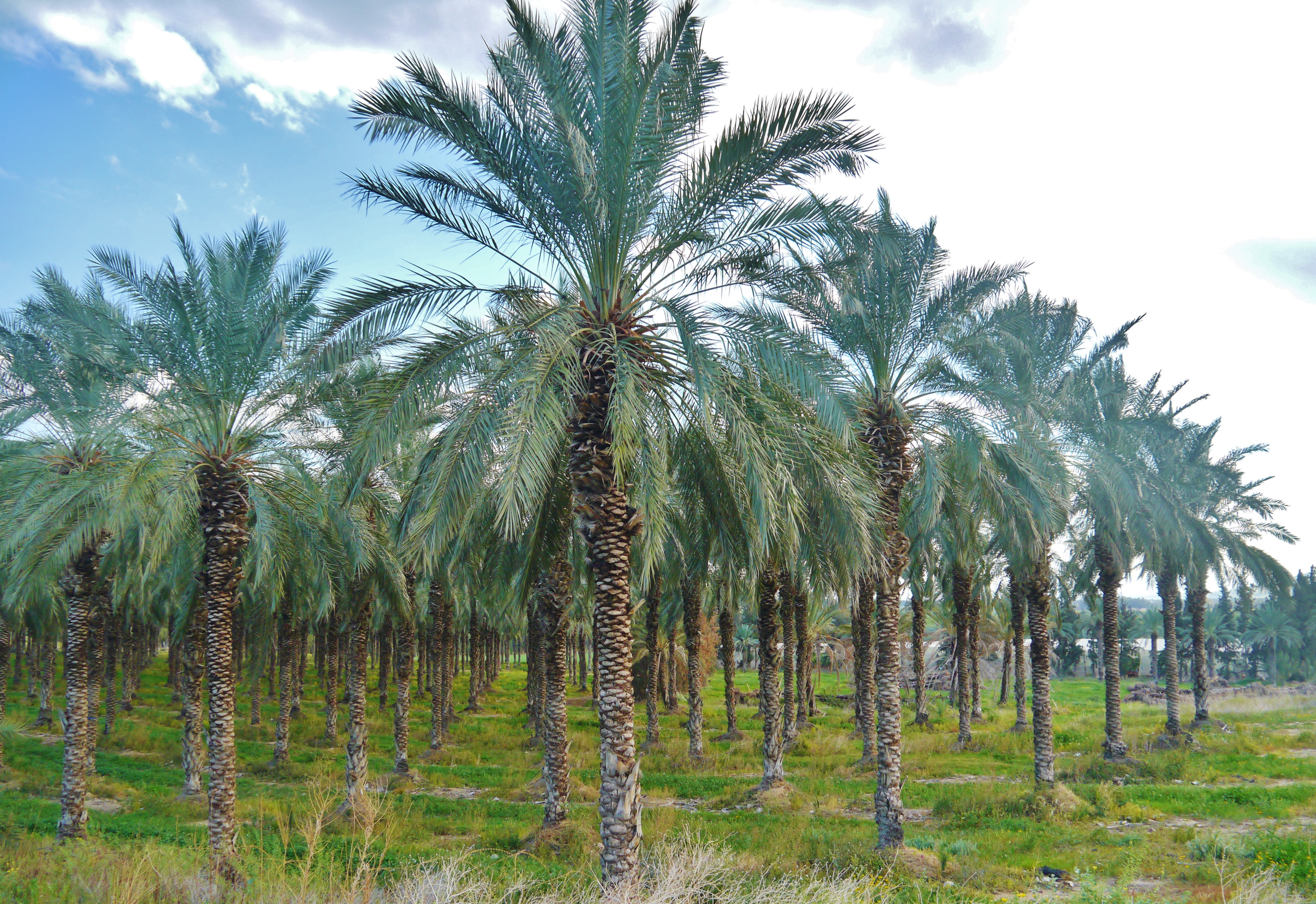 Palm Plantation on Golan Hights, Israel